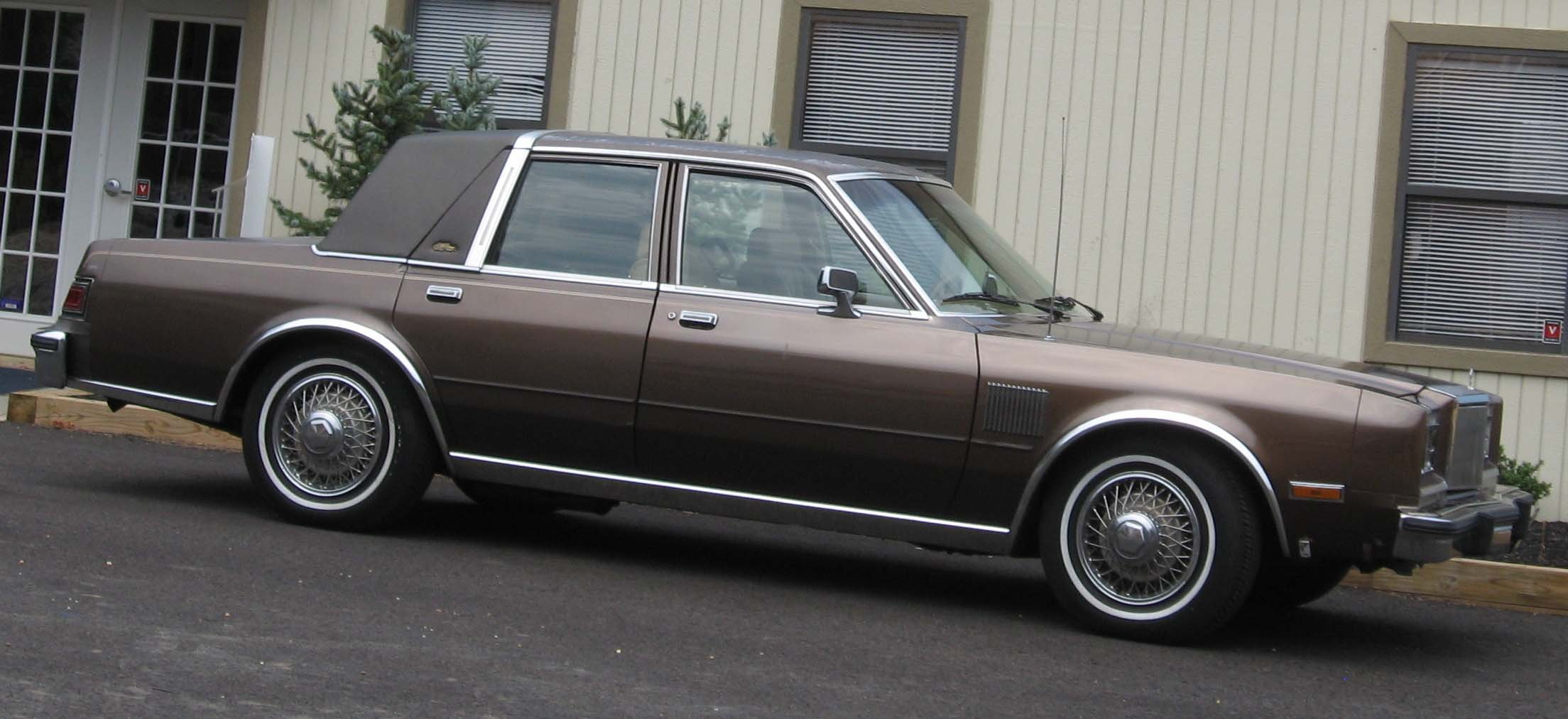 1982-1987 Chrysler Fifth Avenue photographed in USA.